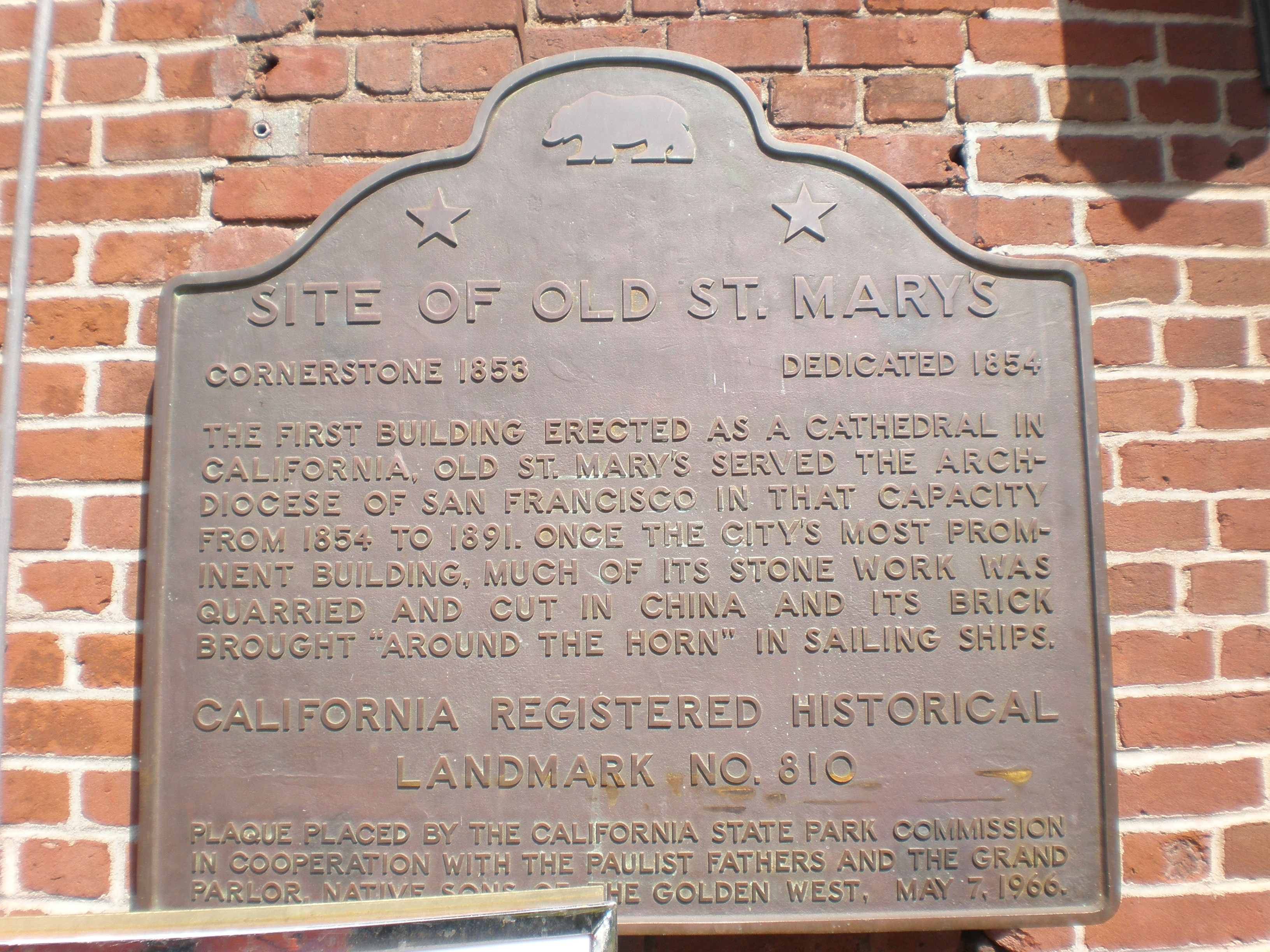 A plaque commemorating Old St. Mary's Cathedral in San Francisco as a California historic landmark.